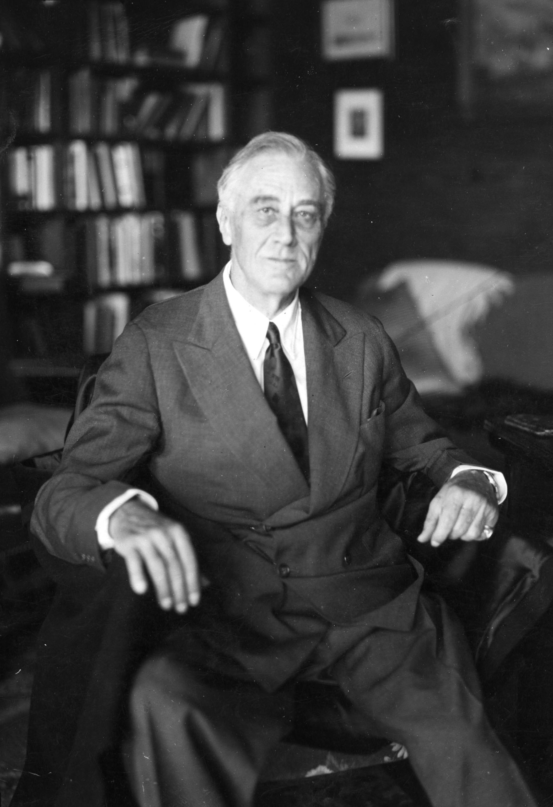 The last portrait of President Franklin D. Roosevelt, taken on April 11, 1945, one day before his death